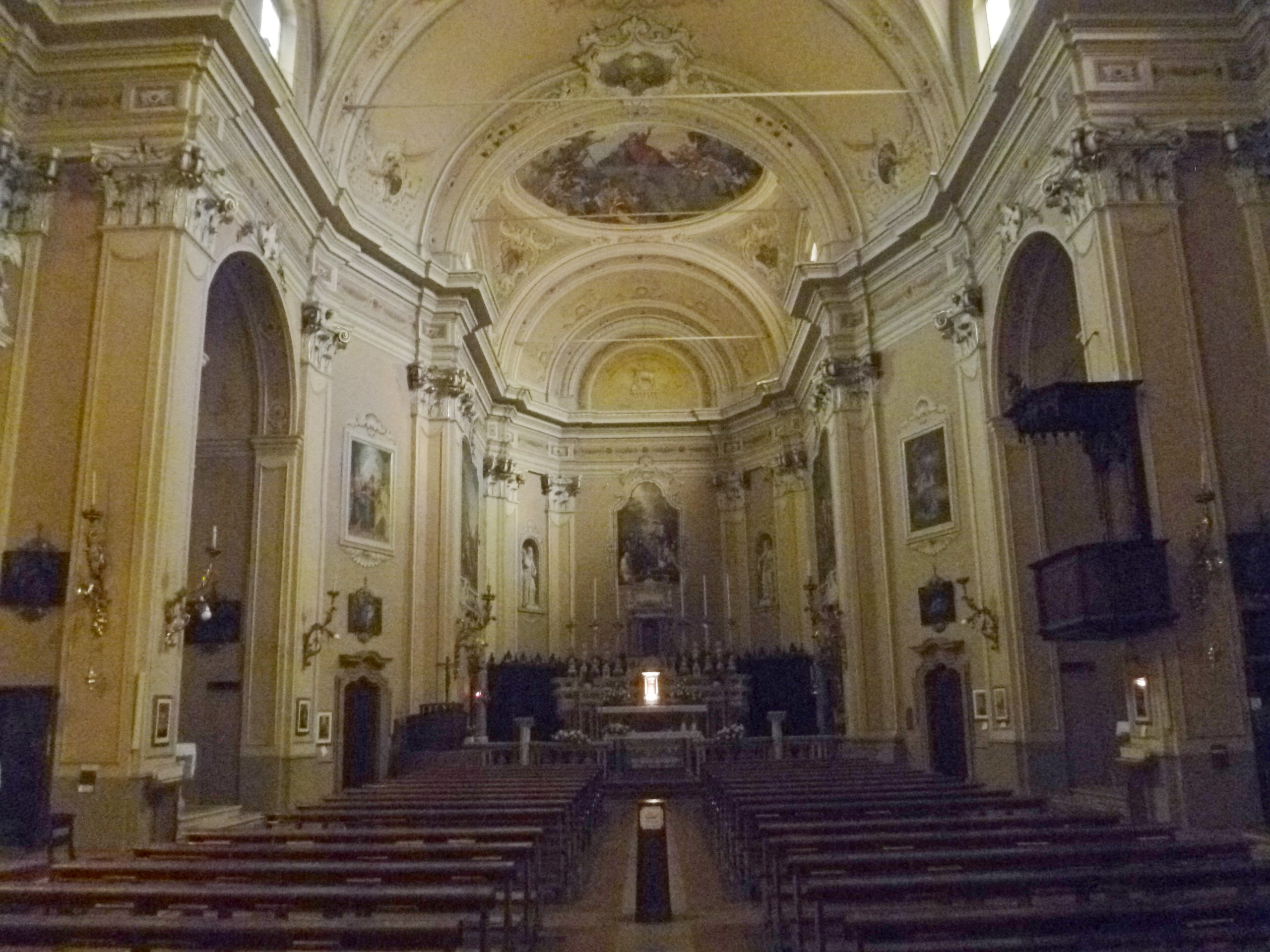 Interior of the Santo Stefano church in Malcesine, Lake Garda, Italy